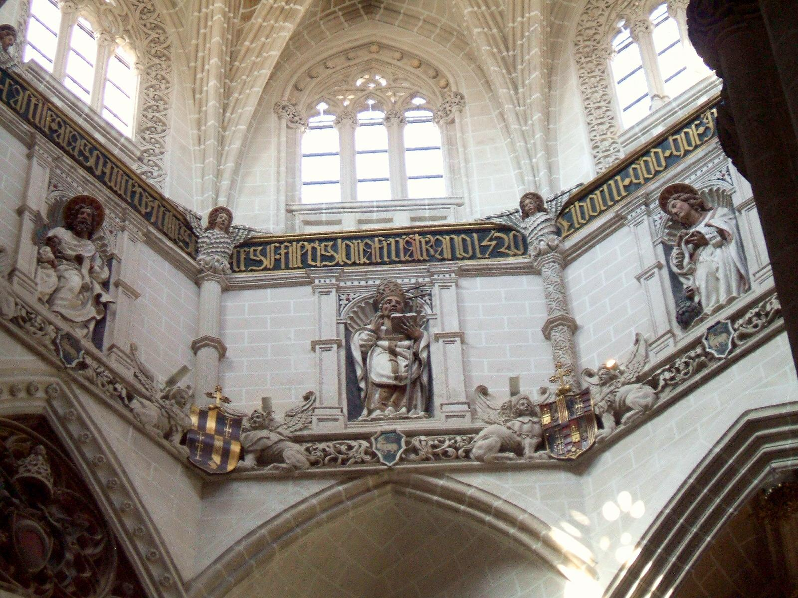 Decoración del tambor del cimborrio de la Catedral del Salvador (La Seo) de Zaragoza (Aragón, España).